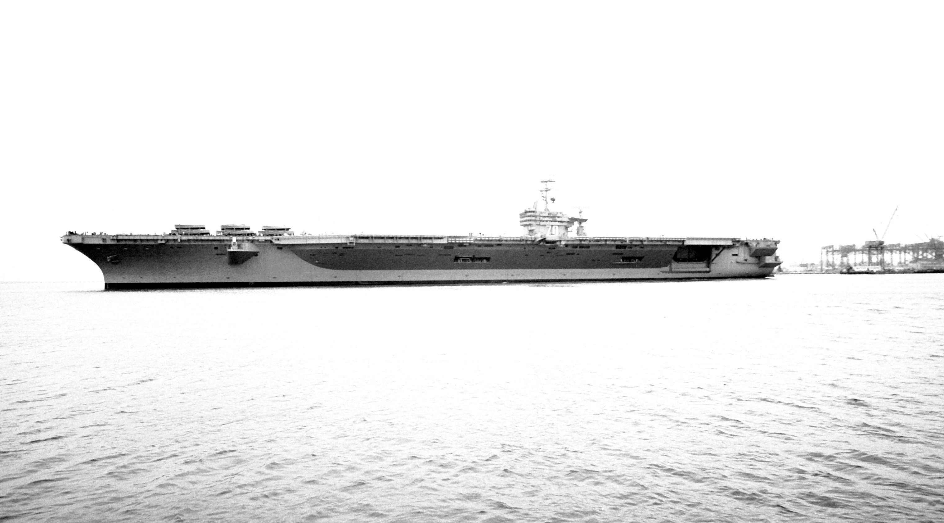 Port beam view of the nuclear-powered aircraft carrier USS CARL VINSON (CVN-70).